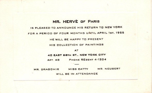 Invitation card New York Painters Dragomir, Catty and Neubert